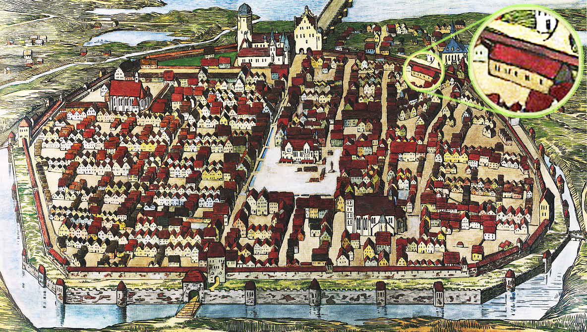 Drawing according to a model of Dresden from ca. 1530, which shows the city around 1521. The first synagogue is scaled in a magnifying glass.